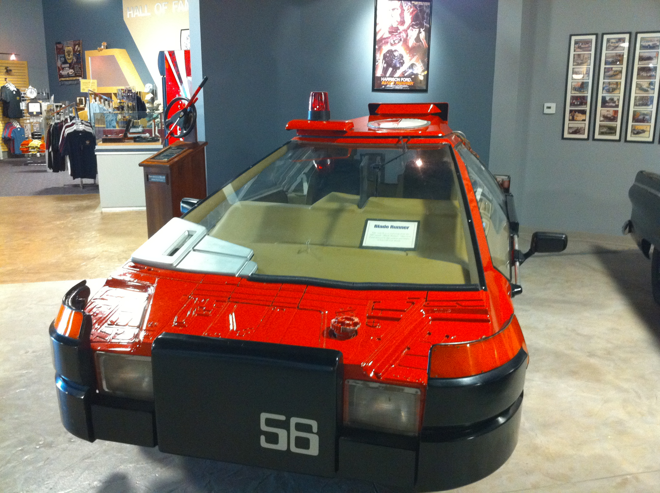 Police car from the film Blade Runner displayed at the American Police Hall of Fame & Museum.